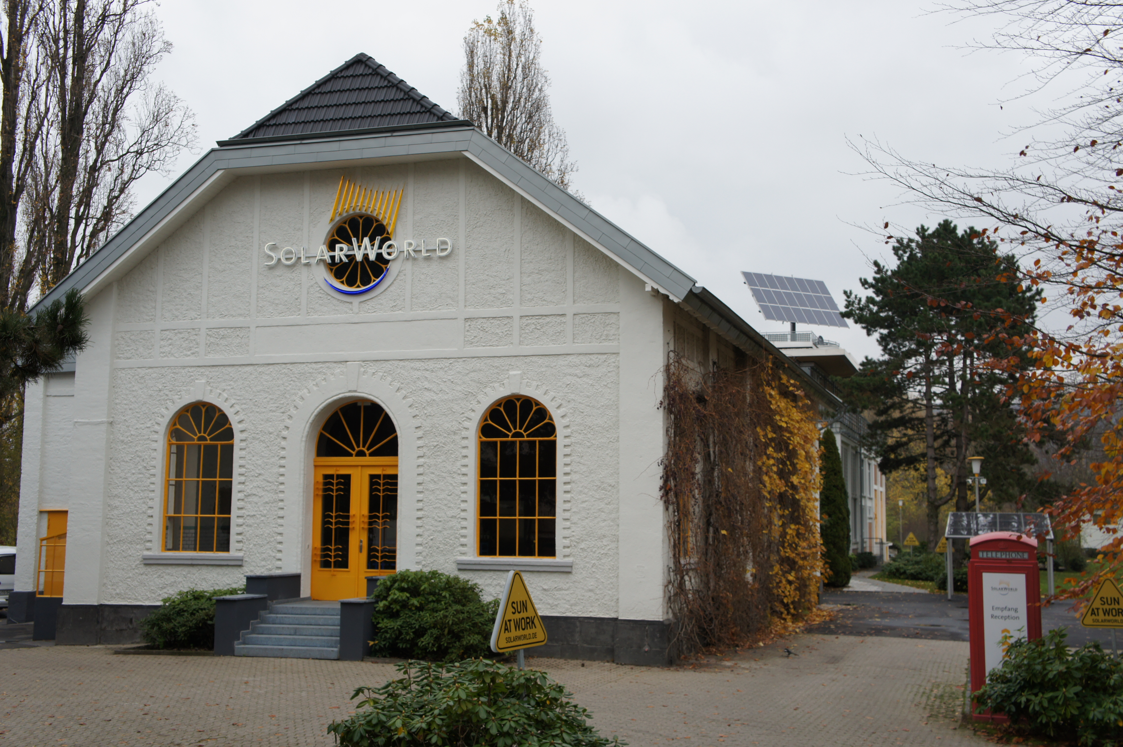 Solarworld AG, Bonn